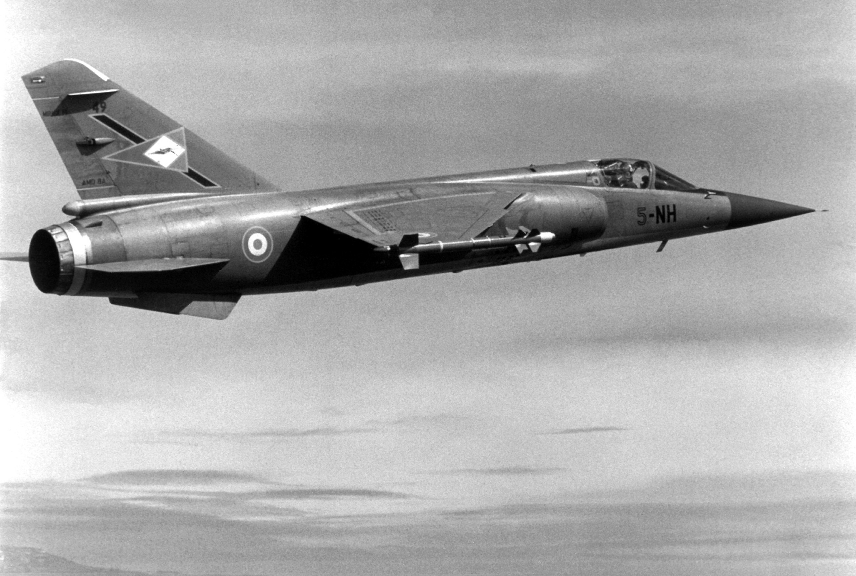 An Armée de l'Air (French Air Force) Dassault Mirage F1C from Escadron de chasse 1/5 Vendée (serial 5-NH) based at Base aérienne 115 Orange-Caritat, Vaucluse, Provence (France). EC 1/5 flew the Mirage F1C from 1975 to 1988.